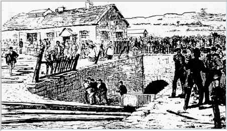 Contemporary engraving of entrance to Park Slip Colliery, Tondu, Wales. Copied from